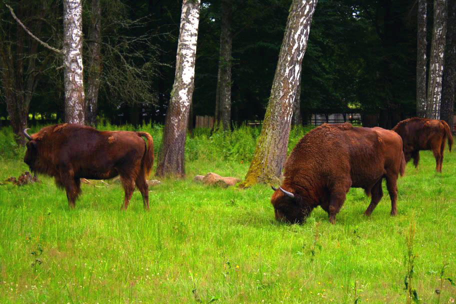 Białowieski National Park (Podlasie Voivodeship)